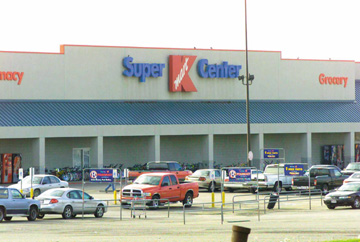 This is a photograph showing the exterior of a former Kmart Super Center in Corsicana, Texas. The store is no longer in business.